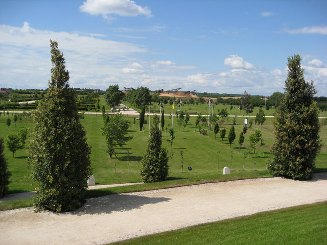 Armed Forces Memorial - View towards the Lafarge quarry workings